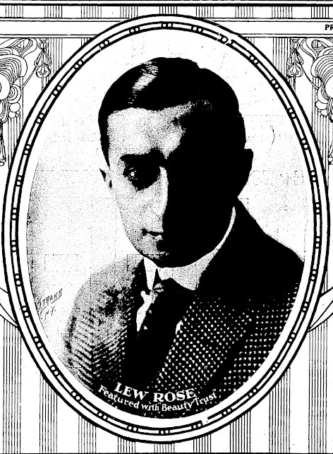 Lew Rose, Millie's husband